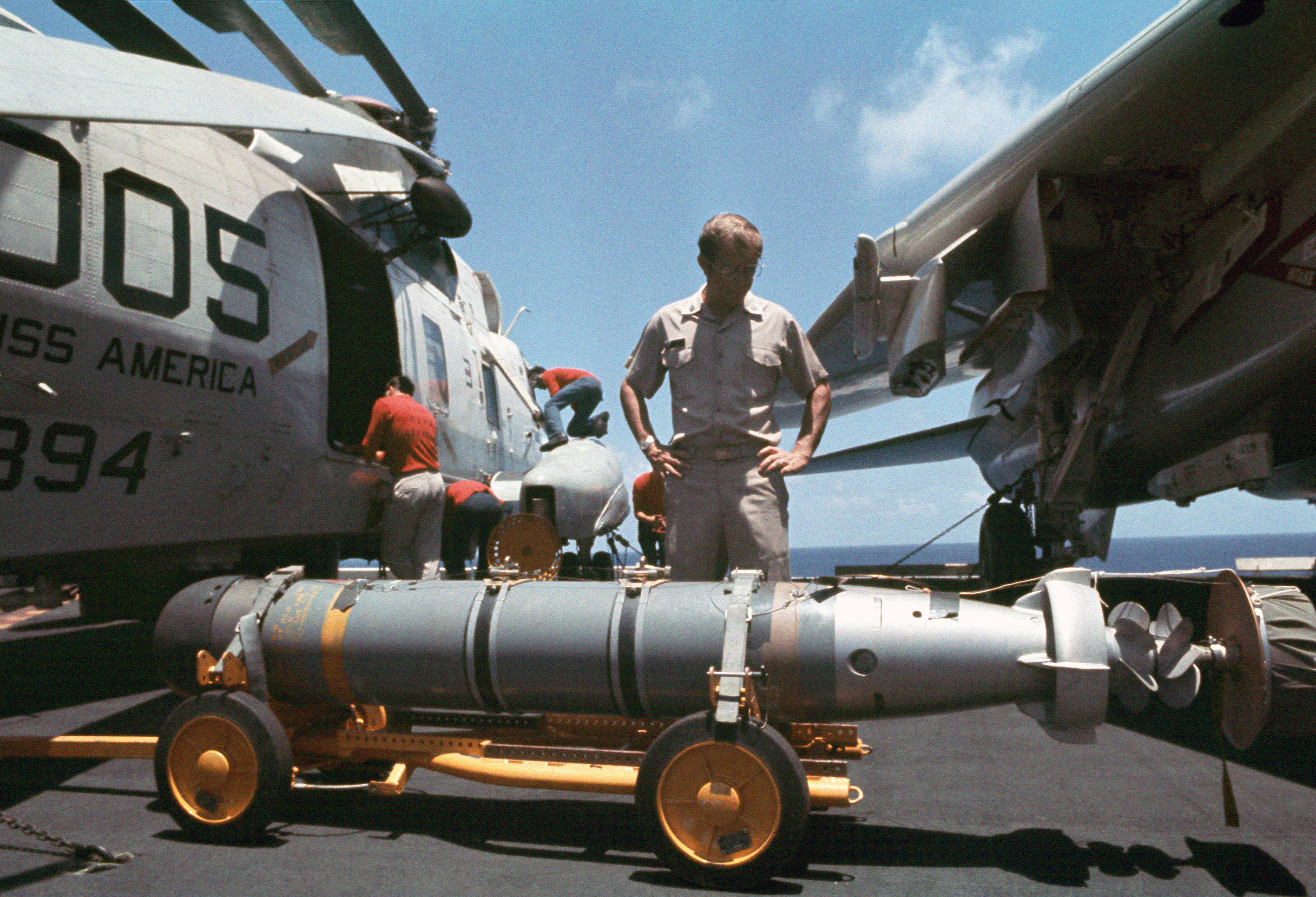 A U.S. Navy ordnance officer inspects a Mark 46 torpedo on an Aero 21A weapons skid being loaded aboard a Sikorsky SH-3H Sea King helicopter (BuNo 149894) from Helicopter Anti-Submarine Squadron HS-15 Red Lions parked on the flight deck of the aircraft carrier USS America (CV-66) on 1 September 1977. HS-15 was assigned to Carrier Air Wing 6 (CVW-6) for a deployment to the Mediterranean Sea from 29 September 1977 to 25 April 1978. The SH-3H 149894 was later featured in the movie "Top Gun" as the helicopter that lands with the two men shot down by the "hero". It was finally retired to the AMARC as 9H0059 on 17 December 1993.